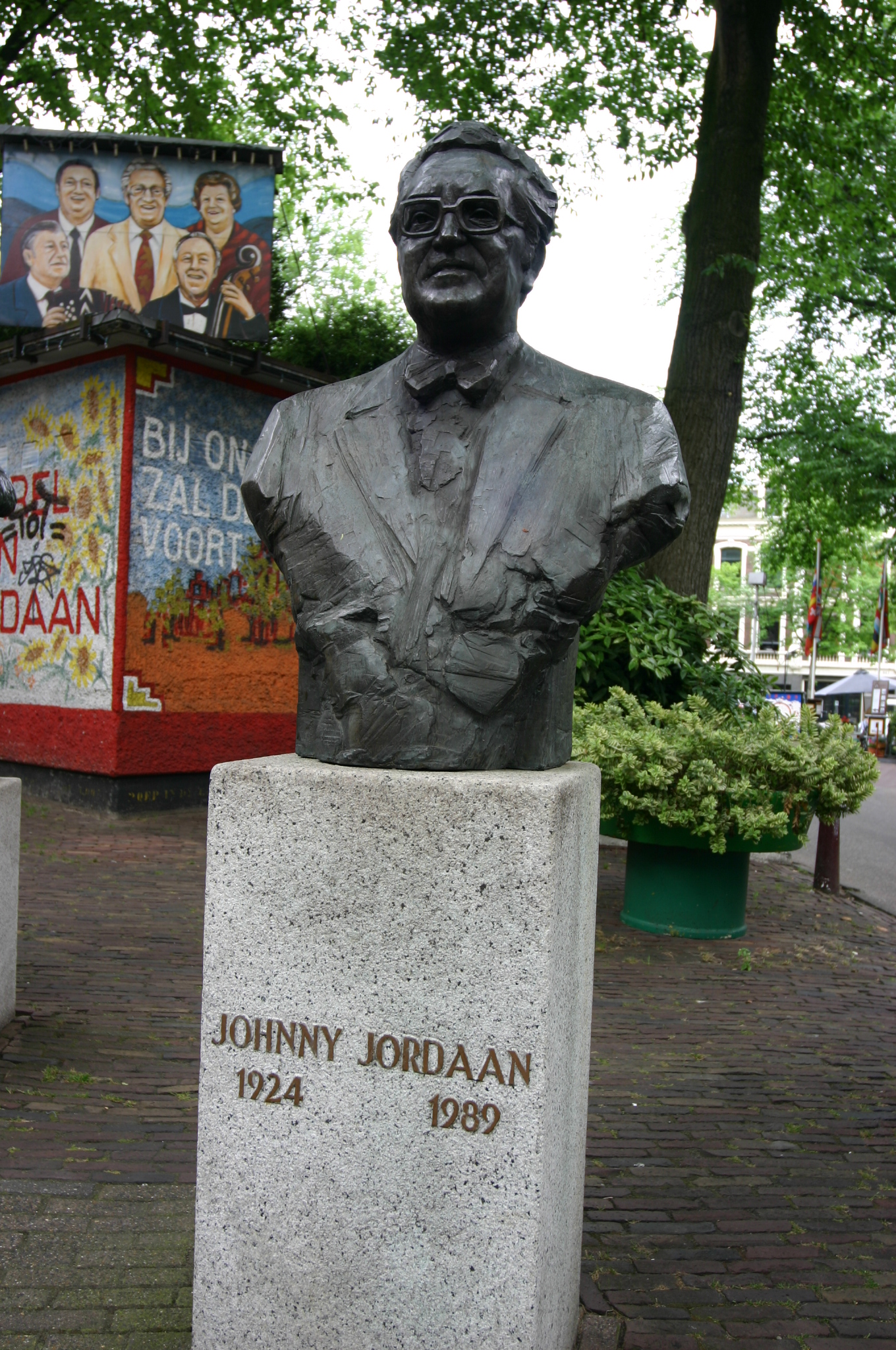 Bust of Johnny Jordaan at Johnny Jordaanplein, Amsterdam, the Netherlands.